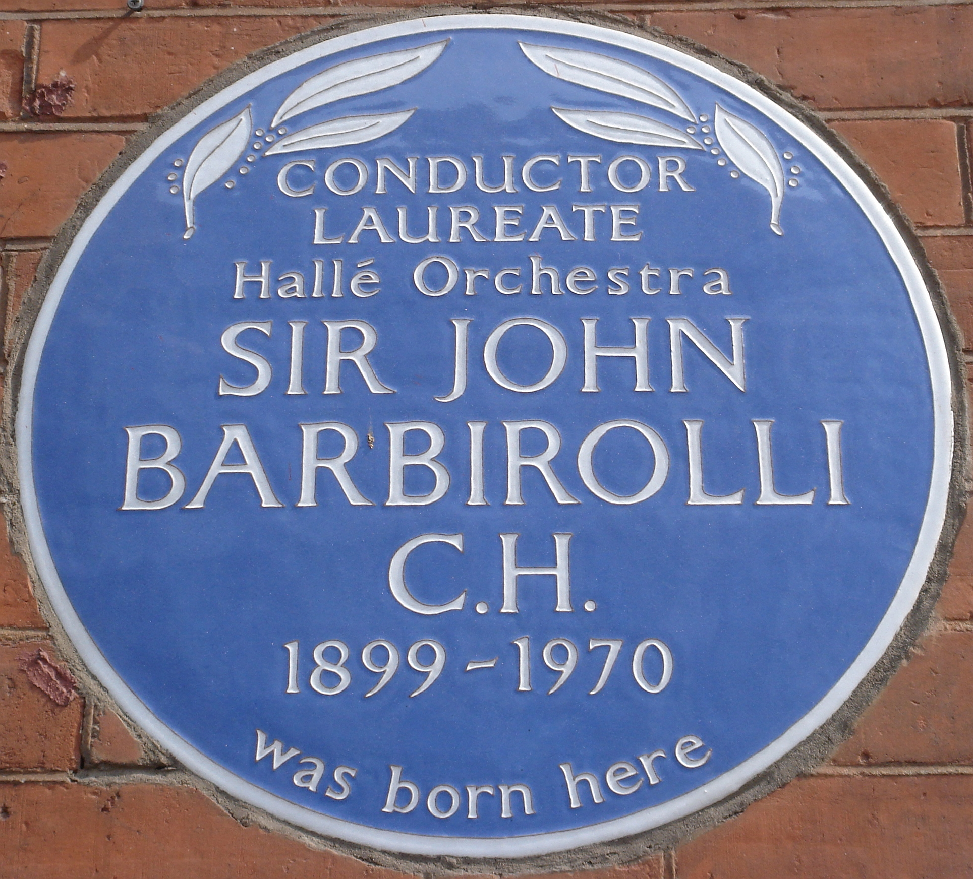 John Barbirolli Southampton Row blue plaque